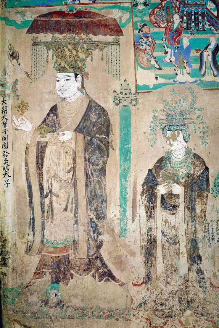 Mural of Viśa' Saṃbhava, king of Khotan. 中文（香港）: 伊斯蘭敎滅亡于闐國之前的于闐國王李聖天壁畫像。